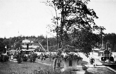 Picture of S/s Elfängen